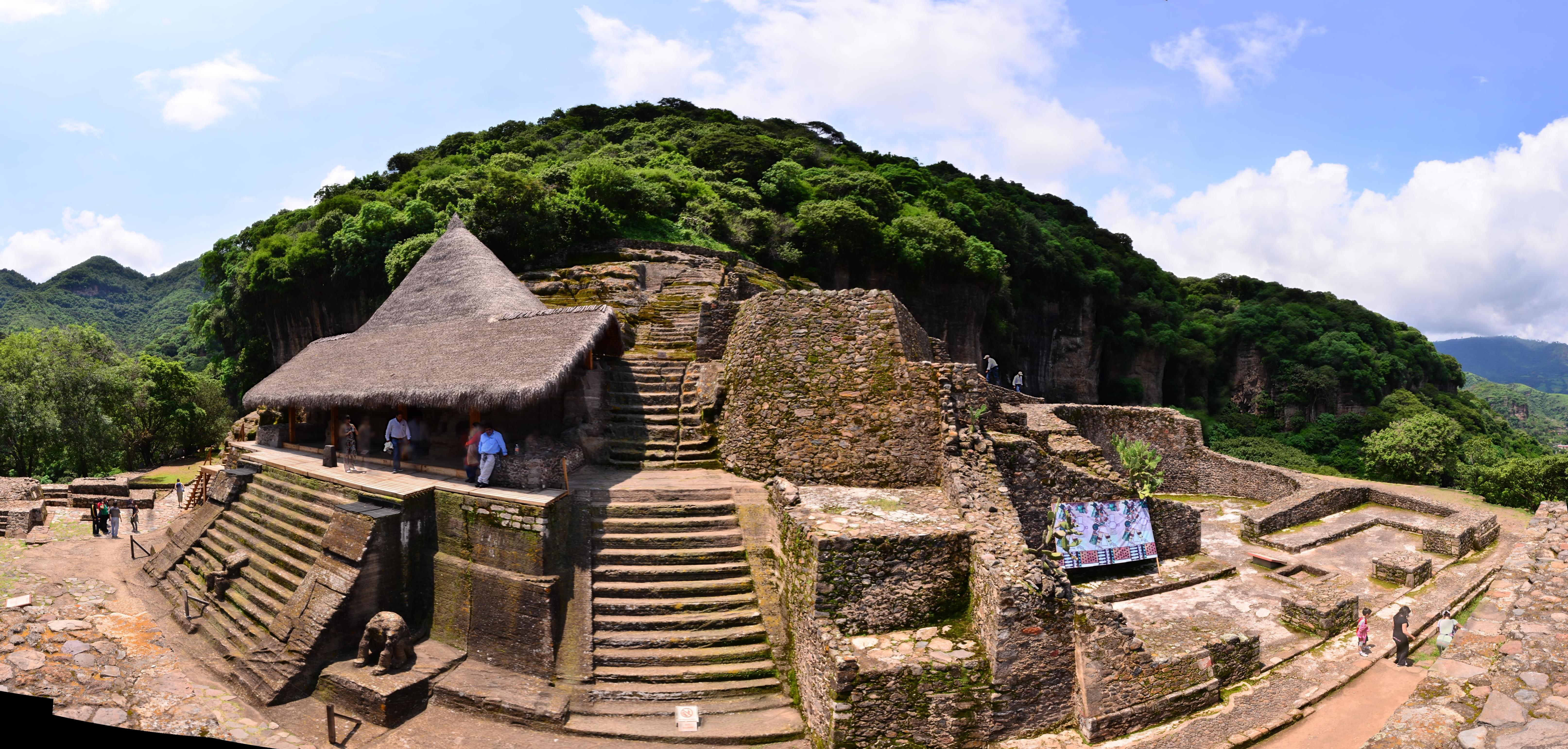 Codigo 2.51 - Casa de los Guerreros, Malinalco. Mexico